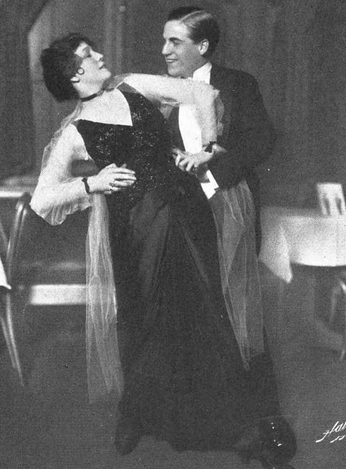 Joan Sawyer and Jack Jarrott, dancing the maxixe, from a 1914 publication. A man and a woman in formal attire, striking a social dance pose.